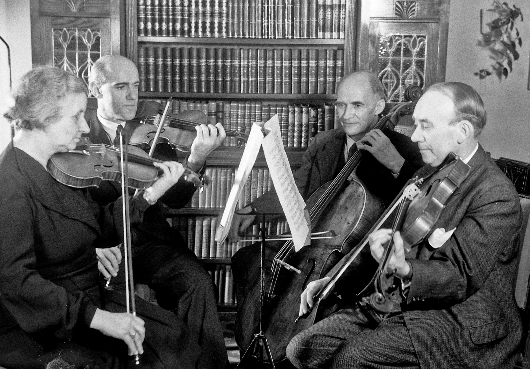 Photograph of the Danish Breuning Storm Quartet (Breuning Storm kvartetten) in 1945 with Paulus Bache, cello, Gunna Breuning-Storm, first violin, Axel Jørgensen, viola, Hans Kassow, second violin. The quartet was also known as the Breuning-Brache Quartet and outside of Denmark as the Copenhagen Quartet.